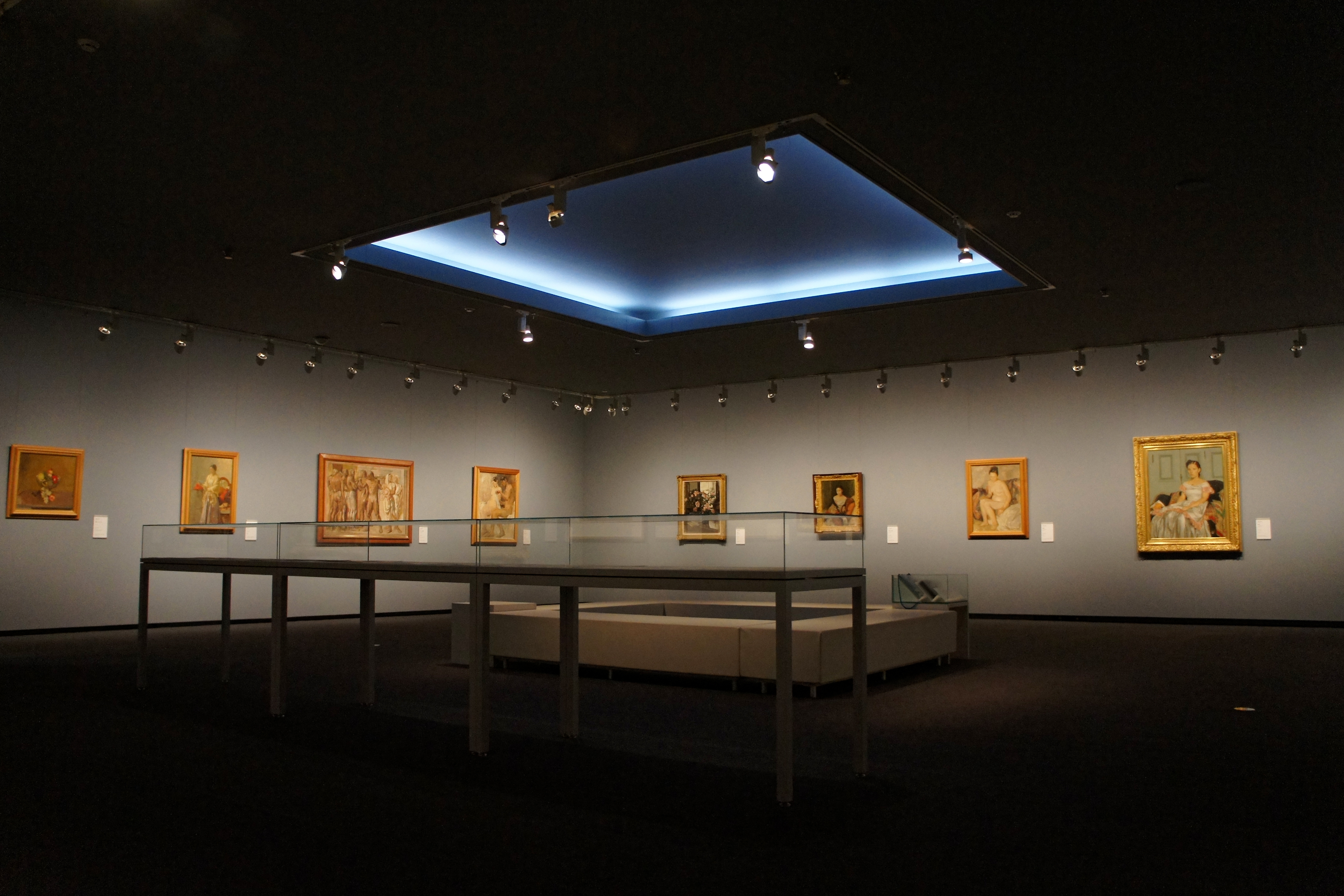 Hyogo Prefectural Museum of Art in Kobe, Hyogo prefecture, Japan